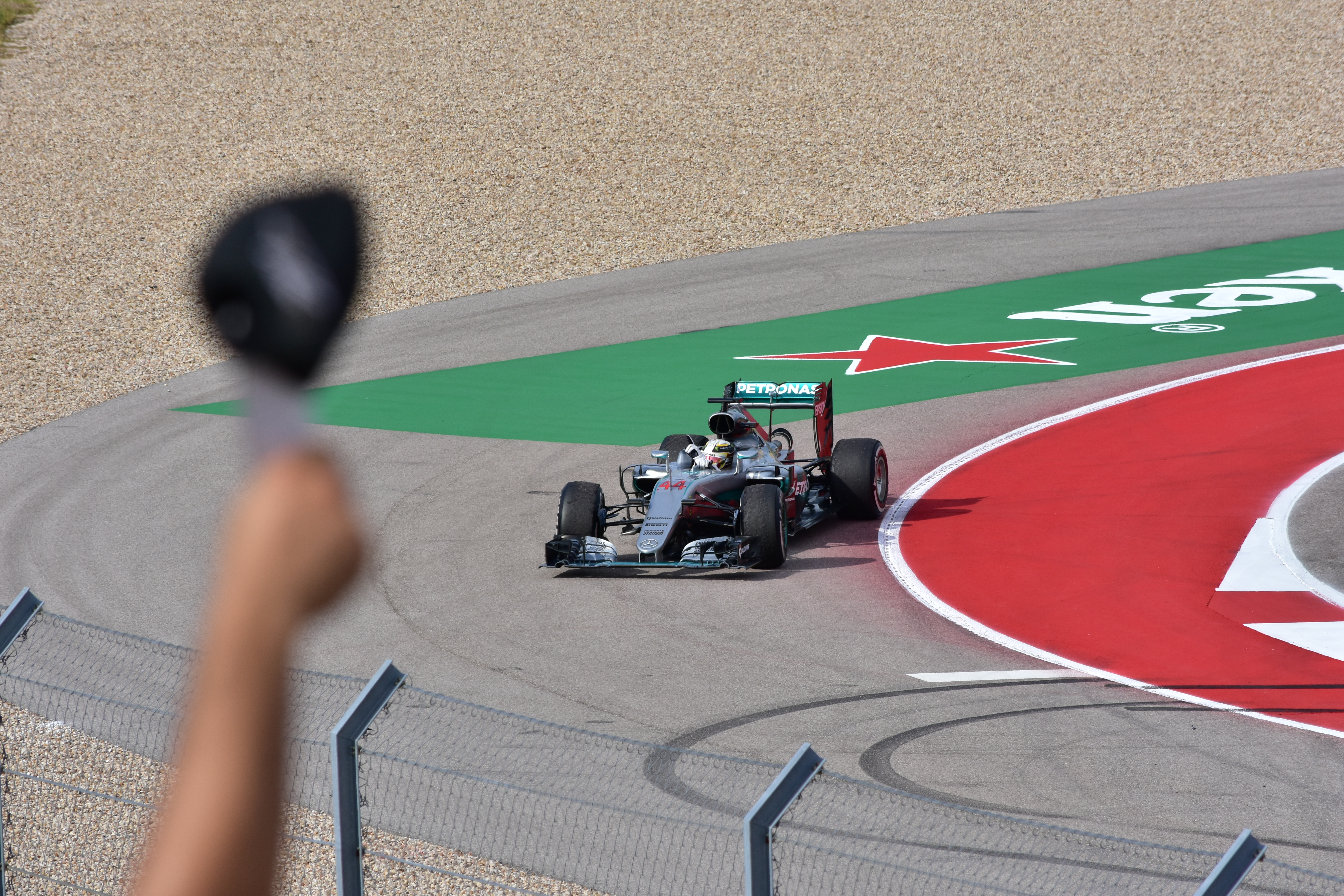 Lewis Hamilton wins the 2016 USA Grand Prix